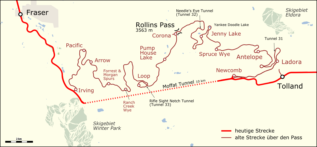 Map of the Moffat Tunnel and the old route over the Rollins Pass.